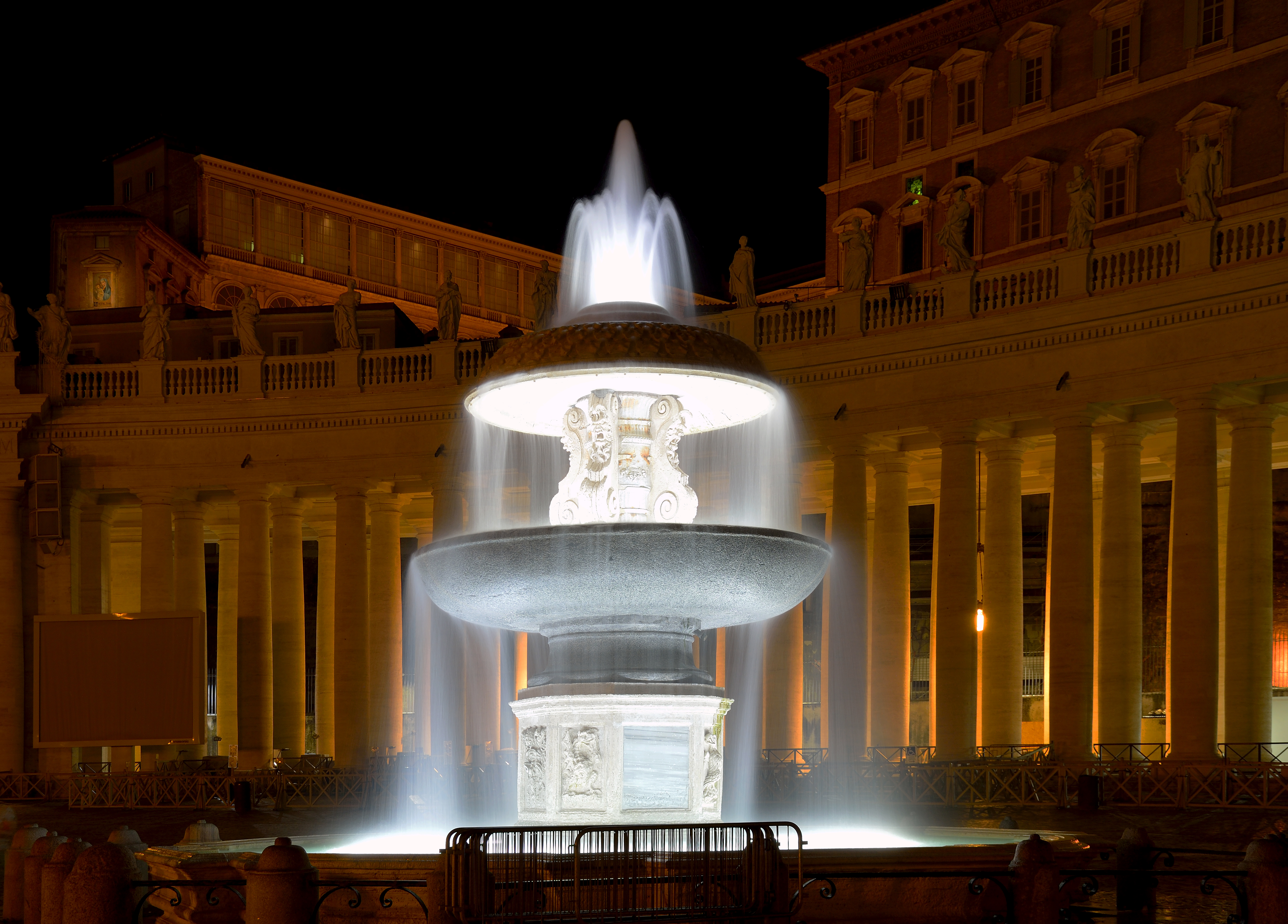 The "ancient fountain" of St. Peter's Square at night